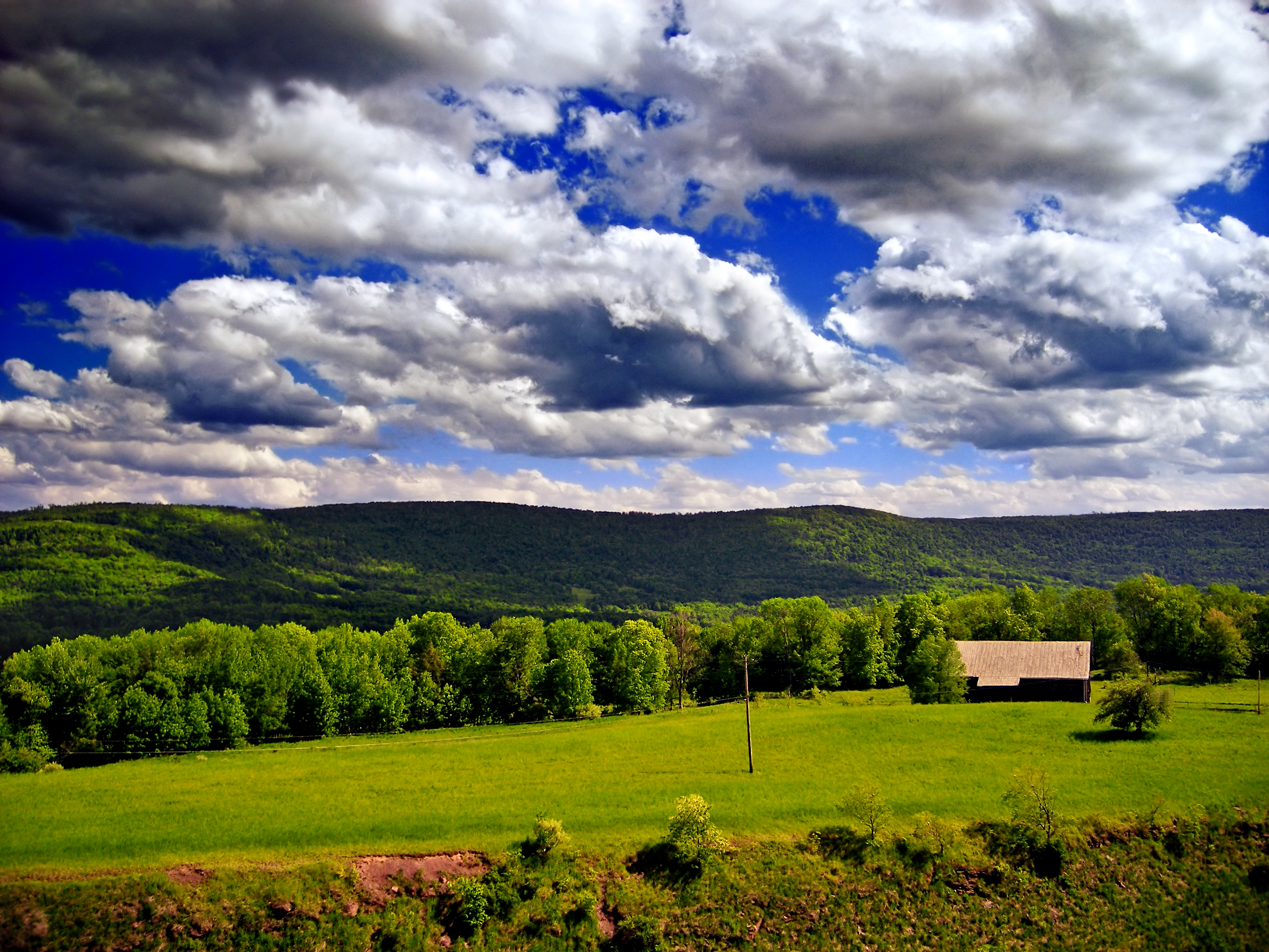 The Endless Mountains and a farm in Laporte Township, Sullivan County, Pennsylvania